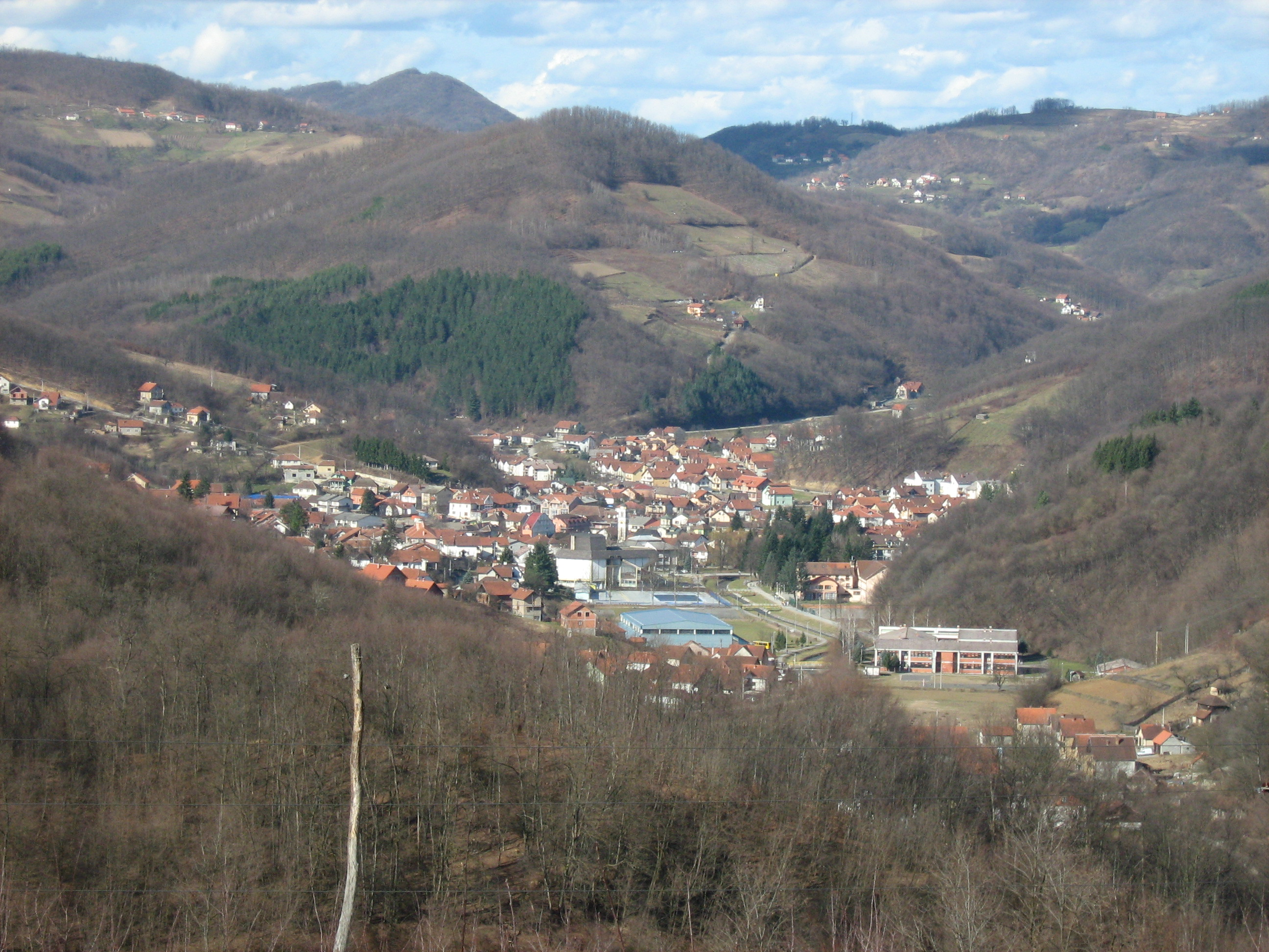 Krupanj, February 2009